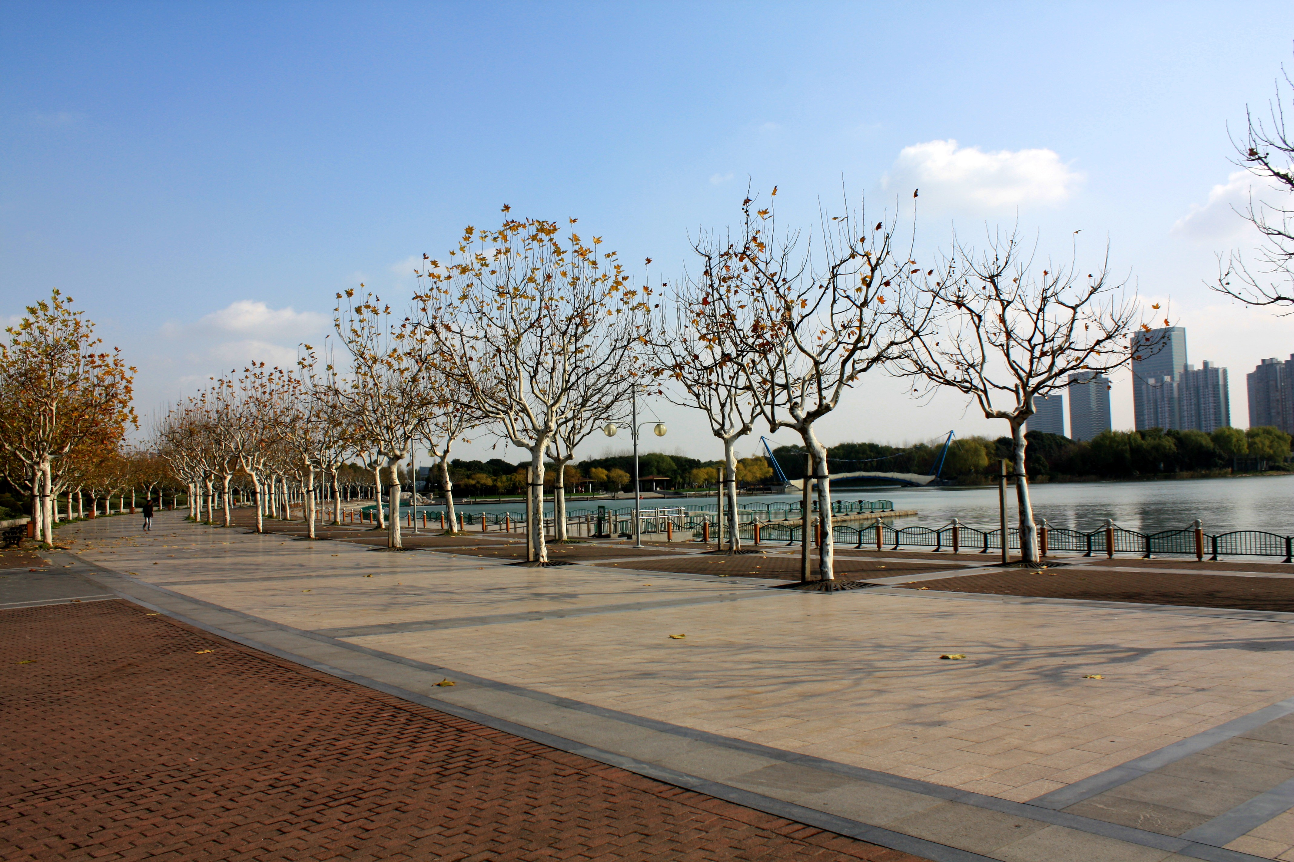 Century Park, Shanghai